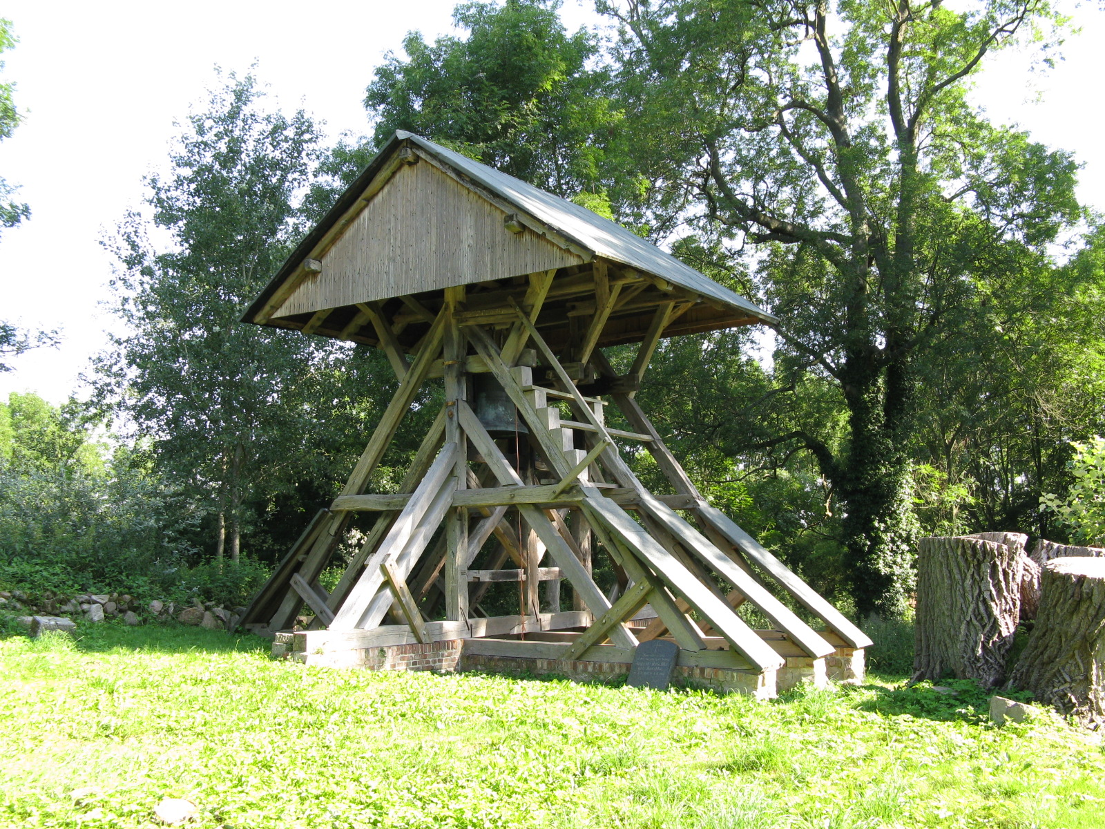 Bell tower of the church in Eickelberg, disctrict Parchim, Mecklenburg-Vorpommern, Germany